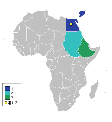 Countries positions in the African Cup of Nations